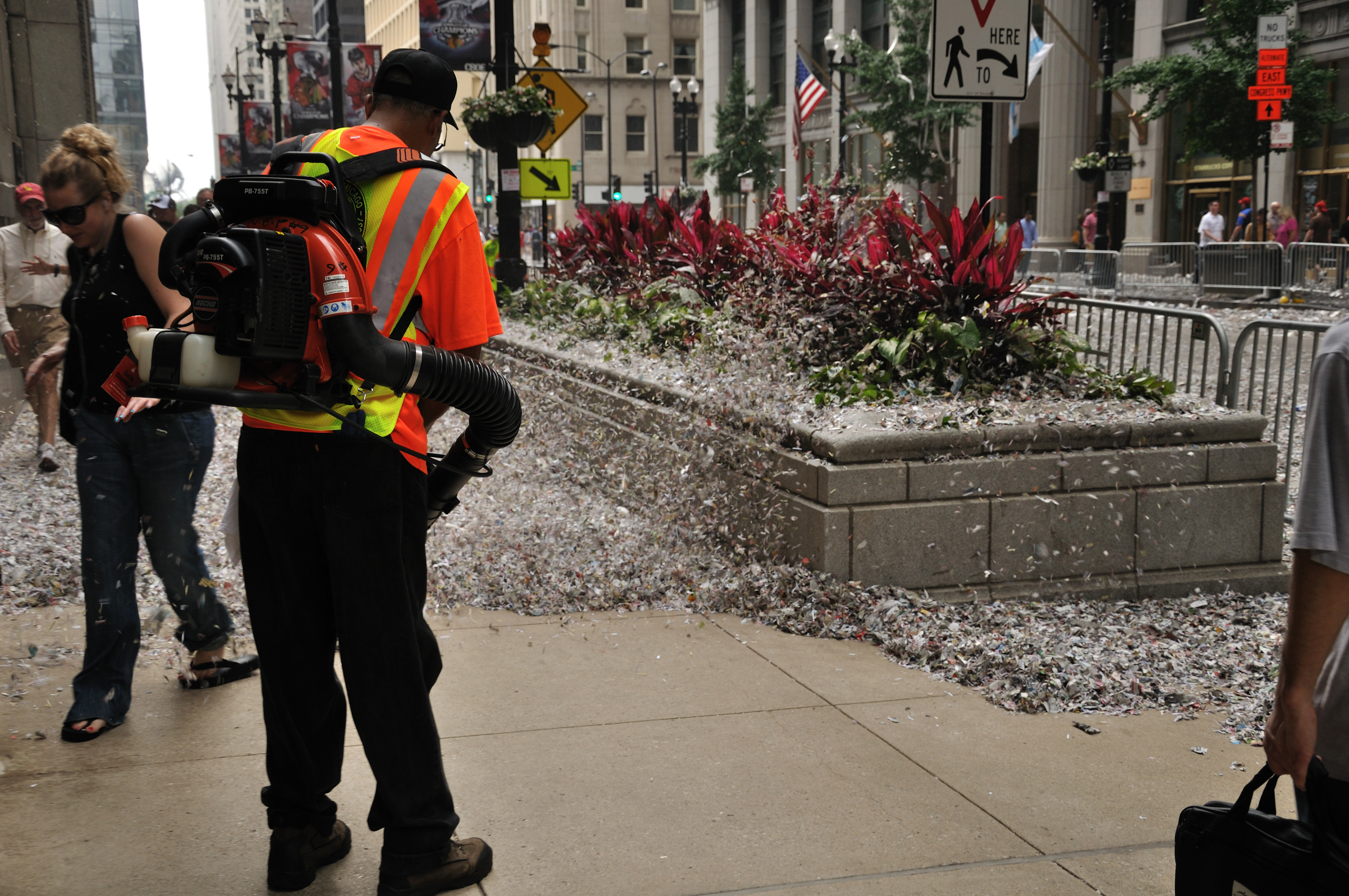 Pay no attention to those pedestrians on the sidewalk! The Chicago Blackhawks were given a ticker tape parade on Friday, 11 June 2010 after their successful defeat of the Philadelphia Flyers on 08 June 2010 in Game 6 of the National Hockey League Stanley Cup Finals. These are my photographs from the parade